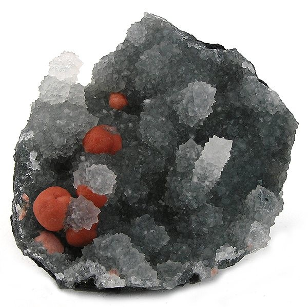 Fluorite, Quartz Locality: Mahodari, Nasik District, Maharashtra, India (Locality at ) These are a really unique form and color for fluorite (tinted by hematite inclusions), similar in form to the yellow Indian fluorite balls that look like eggs. This specimen has five of these fluorite balls, to 0.8 cm, on a matrix of contrasting grey quartz. 6.2 x 5.8 x 2.5 cm